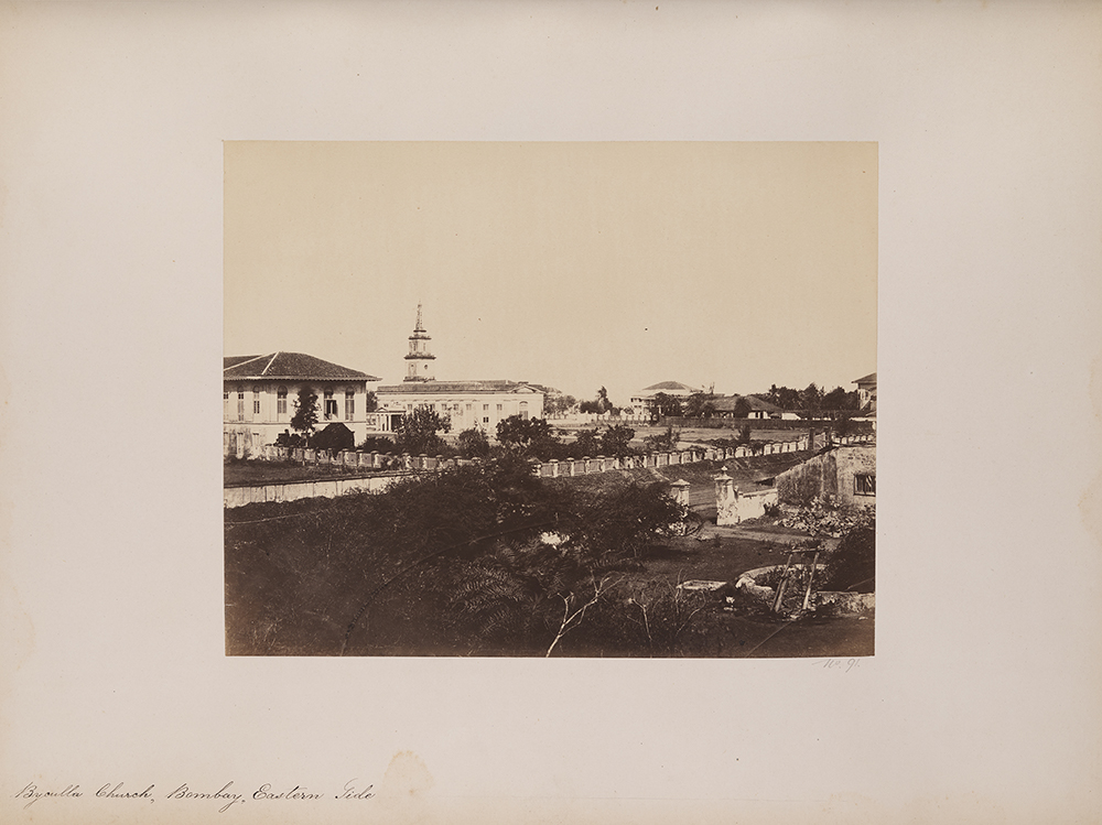 Title: Byculla Church, Bombay, Eastern Side Alternative Title: [Christ Church, Mumbai, Eastern Side] Creator: Hinton, Henry [attributed] Date: ca. 1855-1862 Series: Photographs of Western India. Volume II. Scenery, Public Buildings, &c. Part of: Photographs of Western India Place: Mumbai, Maharashtra, India Physical Description: 1 photographic print: part of 1 volume (100 albumen prints); 20 x 26 cm on 35 x 42 cm mount File: vault_ag2002_1407x_2_091_byculla_opt.jpg Rights: Please cite Southern Methodist University, Central University Libraries, DeGolyer Library when using this image file. A high-quality version of this file may be obtained for a fee by contacting . For more information and to view the image in high resolution, see: View Europe, India, and Asia: Photographs, Manuscripts, and Imprints